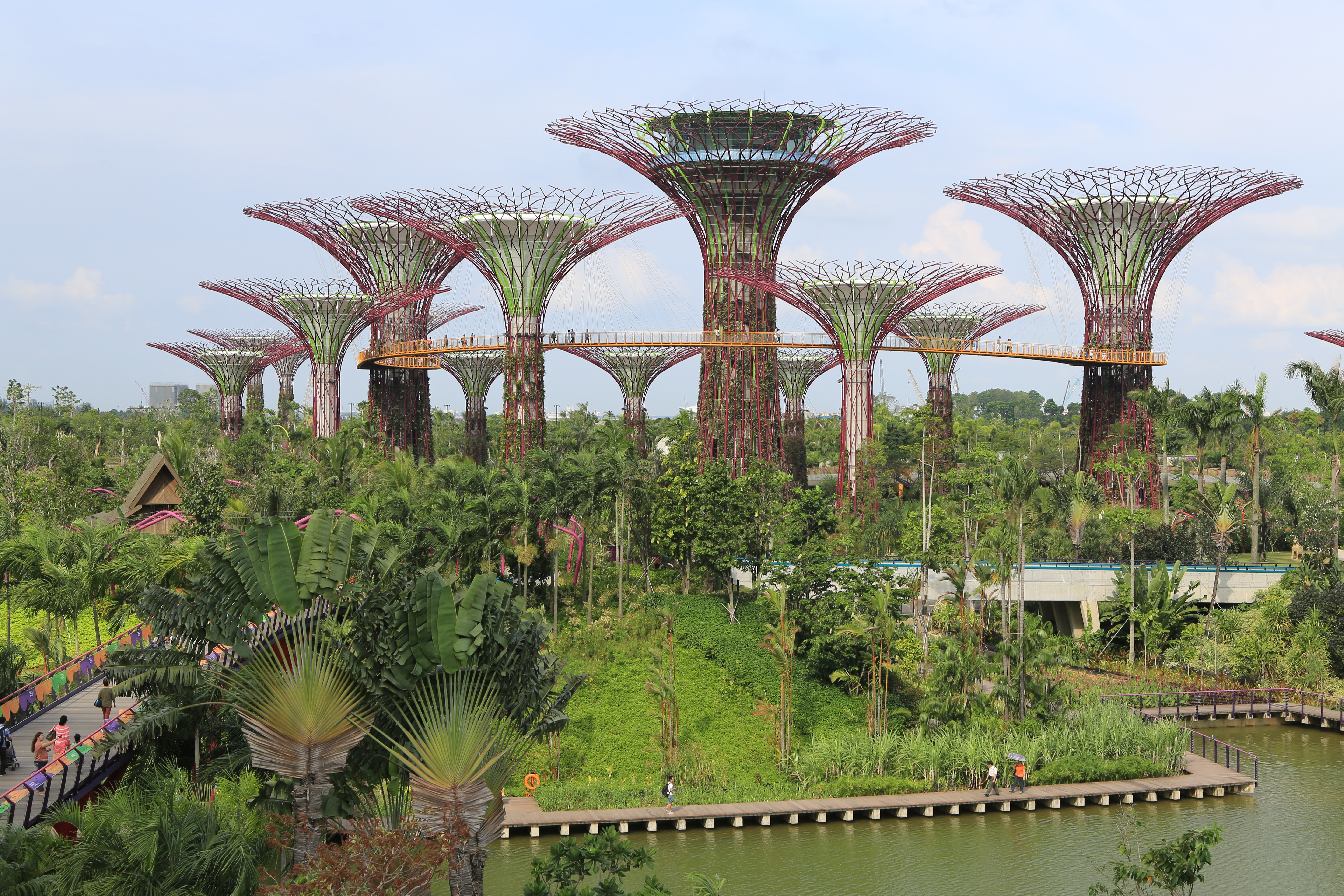 The "supertrees" tower over Gardens by the Bay, Singapore. The tallest one even has a restaurant in it. An elevated walkway spans around the trees for visitors.